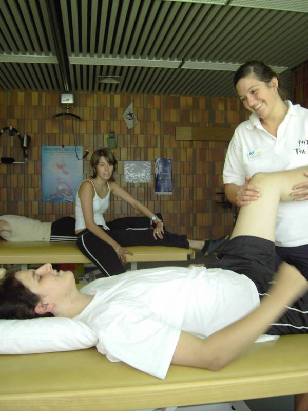 A Friend of mine getting Physiotherapy in the Rehabilitationzentrum Bad Häring